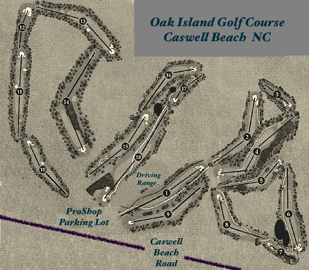 Reformatted update of a Bench Craft Co.diagram (date unknown) of the Oak Island Golf Course which indicates the no longer existing clubhouse and shows the location of three new lakes on the course itself.